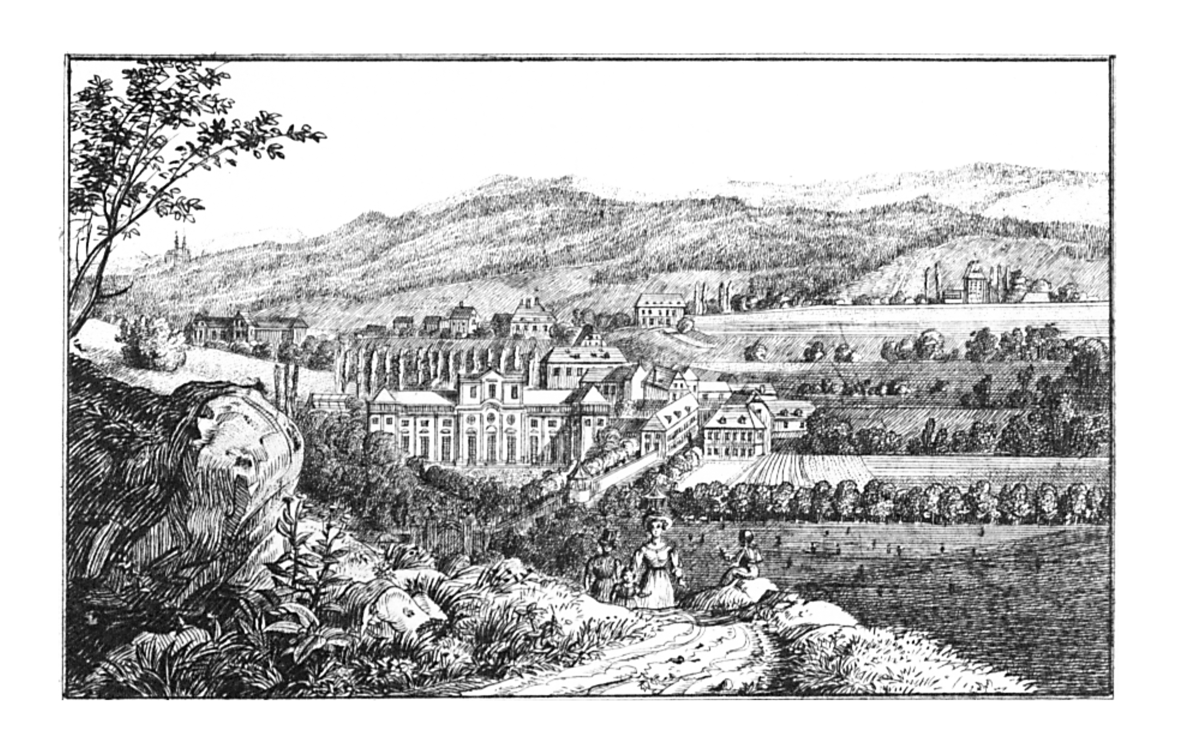 J. F. Kaiser - lithographirte Ansichten der Steyermärkischen Städte, Märkte und Schlösser, Graz 1824-1833 Joseph Franz Kaiser (1786–1859) Alternative namesJ. F. KaiserDescription Austrian printer and editor Date of birth/death11 March 178619 September 1859Location of birth/deathGraz (Steiermark)GrazAuthority control VIAF: 30629353 LCCN: n87141671 GND: 129880159 WorldCat . Scanprojekt Bundesdenkmalamt Österreich This scan or this PDF-file was created within the Austrian Wikipedia-project Denkmalpflege Österreich (German only) supported by Wikimedia Germany and Wikimedia Austria as part of the Wikipedia community-project to collect public domain documents from the library of the Heritage Monuments Board of Austria. This document describes or depicts an object which is located in Austria today. Send requests for uncompressed scans to Hubertl. This work is in the public domain in the United States, and those countries with a copyright term of life of the author plus 100 years or less. This file has been identified as being free of known restrictions under copyright law, including all related and neighboring rights.